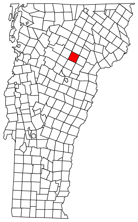 Map of Vermont towns with Woodbury highlighted